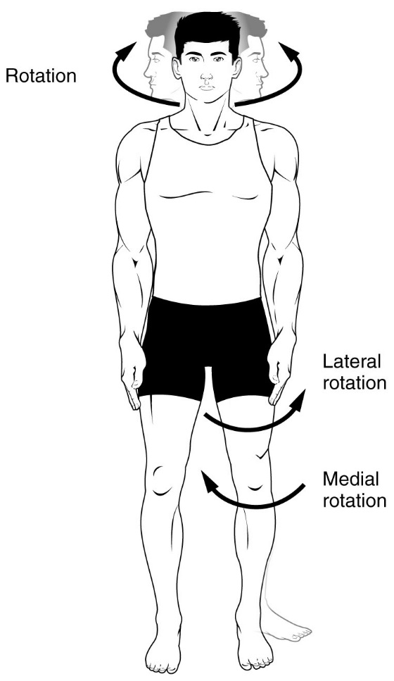 Rotation.